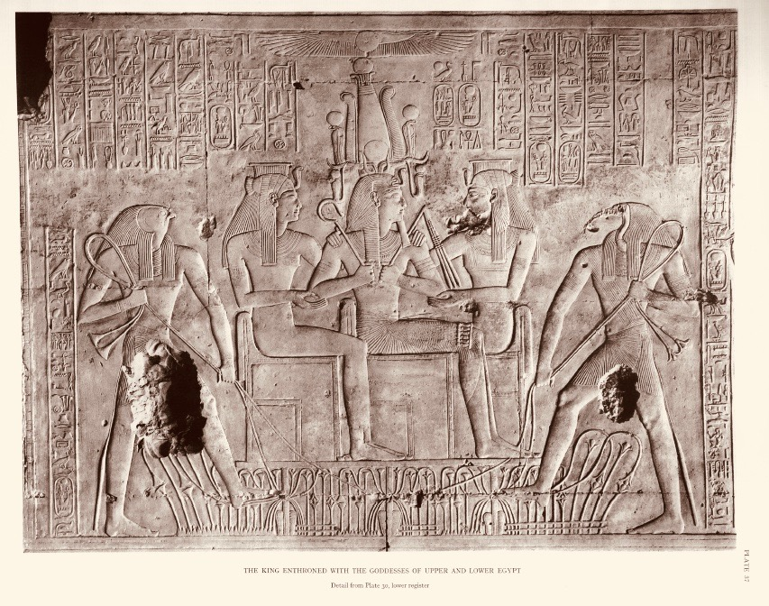 Ancient Egypt, Sethi I. 19. dynastie